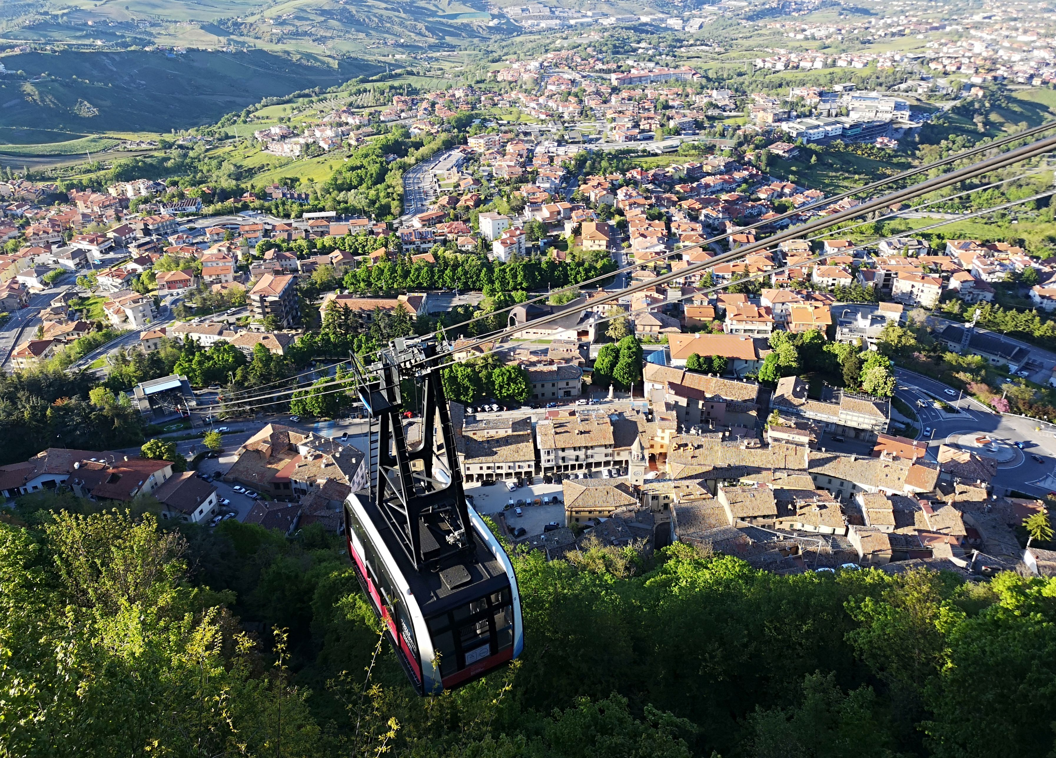 Cableway of San Marino and view of Borgo Maggiore.